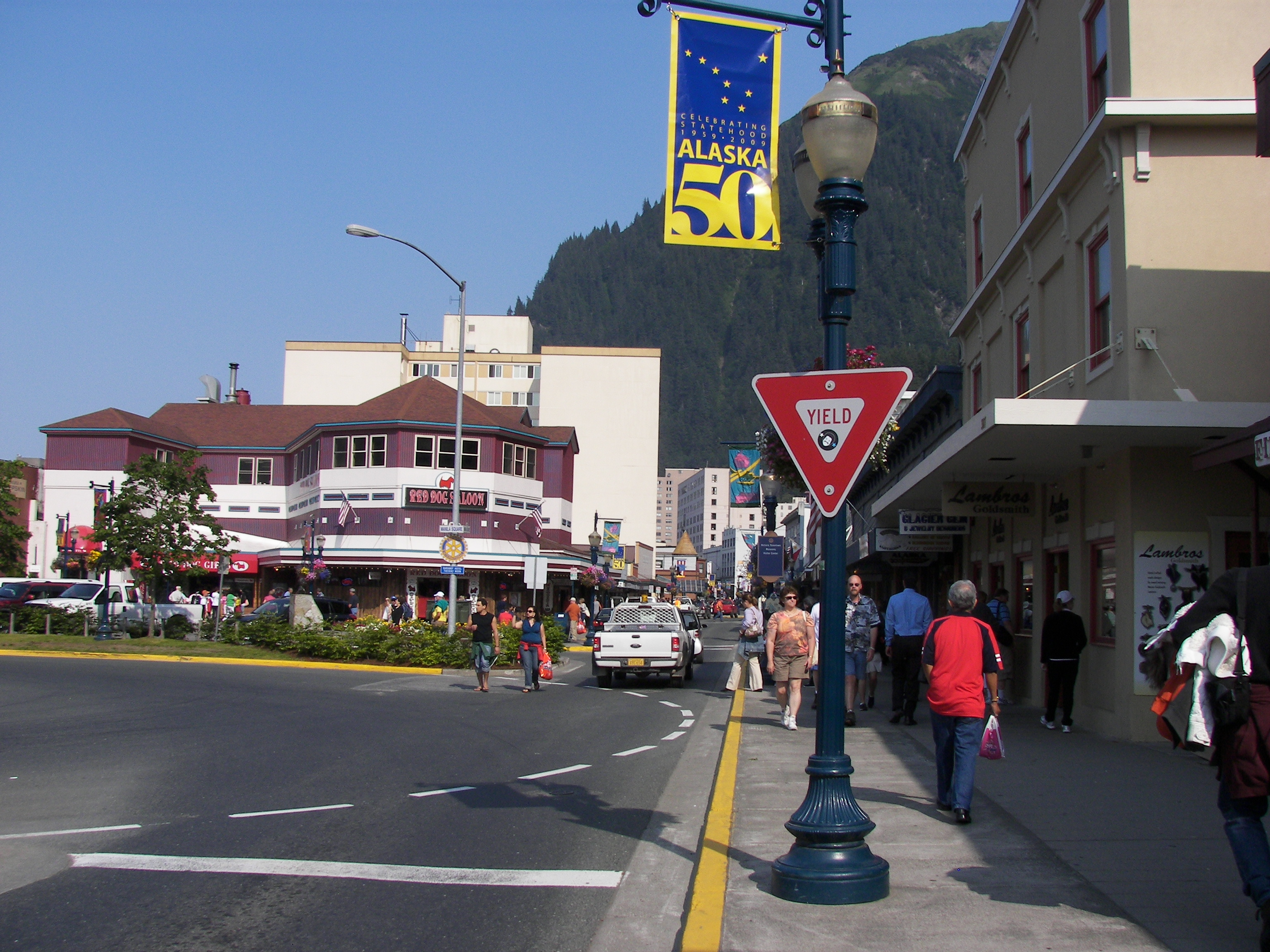 Intersection of Franklin Street and Marine Way/AK-7 in downtown Juneau.